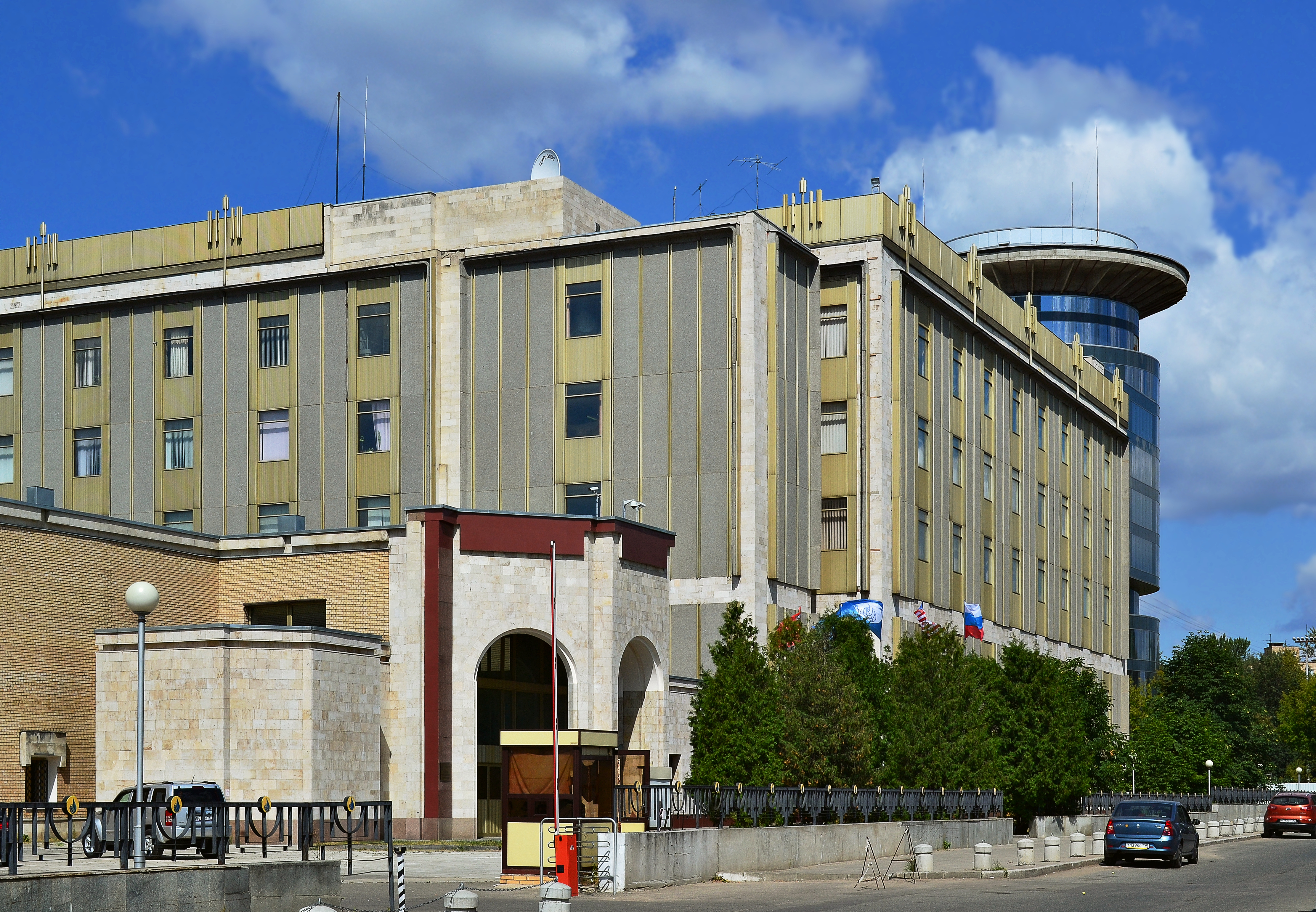 Korolyov, Moscow Oblast. A building of the Roscosmos Mission Control Center (building No. 100 of TsNIIMash). 1975. A view from Bogomolova Street. The unfinished (2015) building of the GLONASS Center is seen behind the building of the Mission Control Centre, on the right.